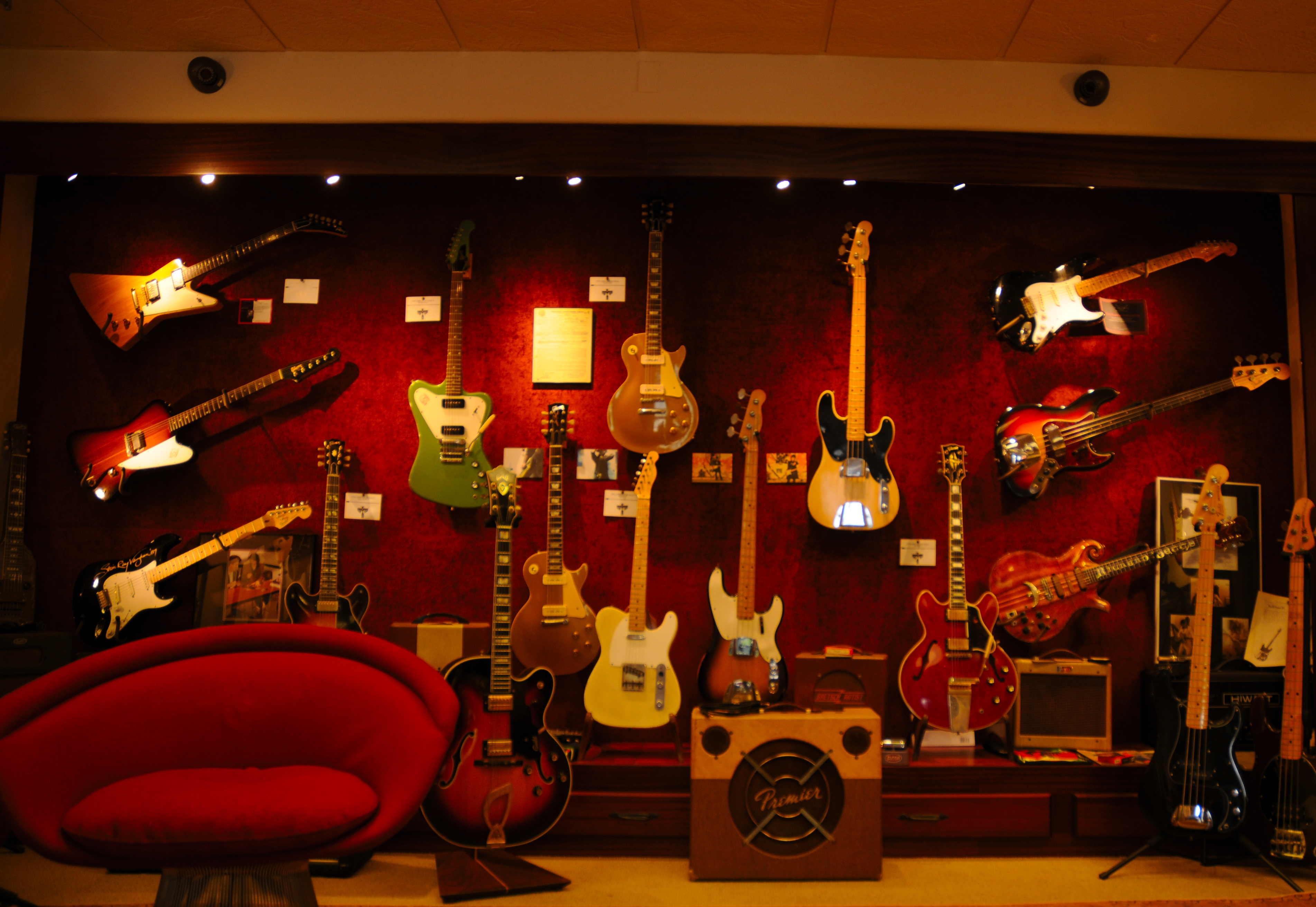 Rumble Seat Music Vintage Guitars - Carmel, CA